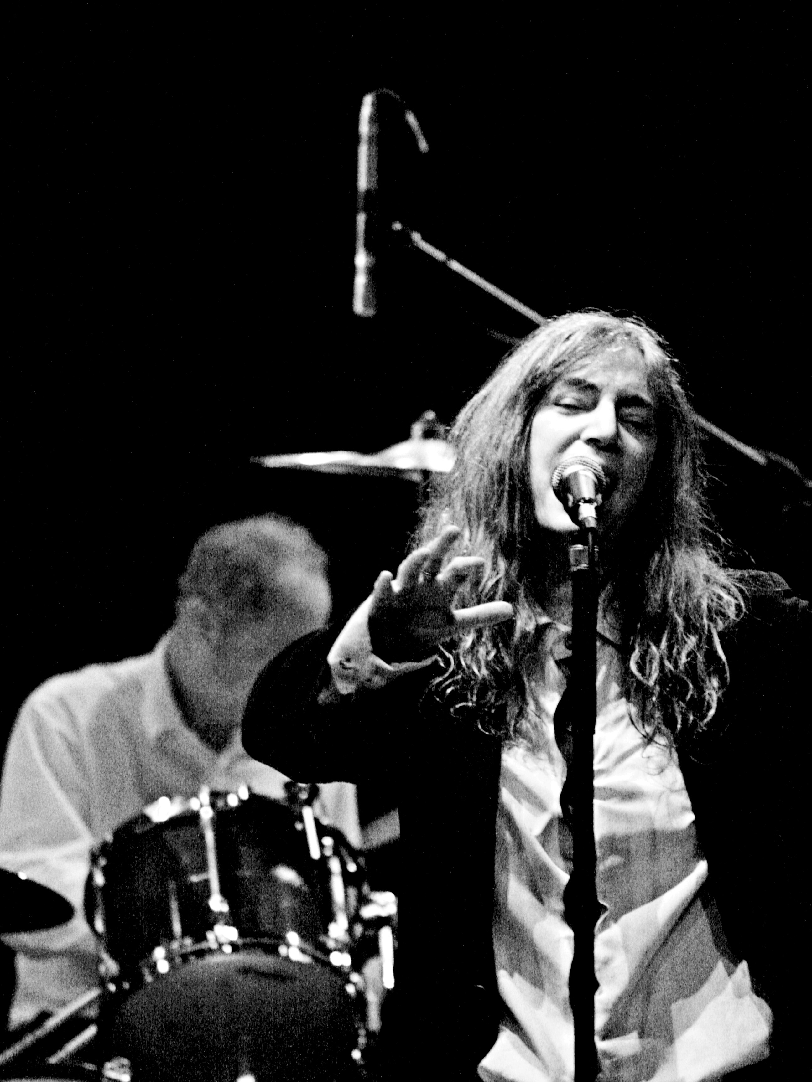 Patti Smith and Jay Dee Daugherty performing at The Roundhouse, London, United Kingdom.